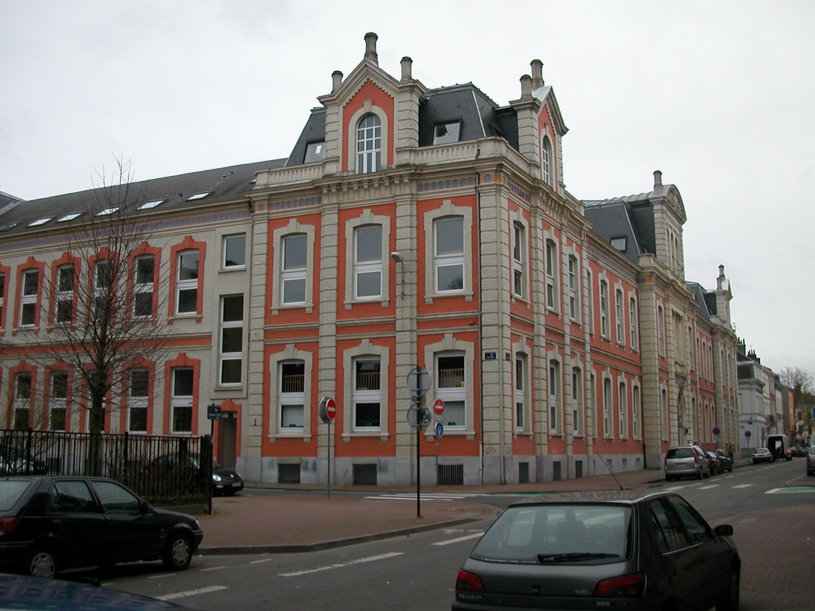 Historic building hosting the 'Institut industriel du Nord (IDN)' - École centrale de Lille